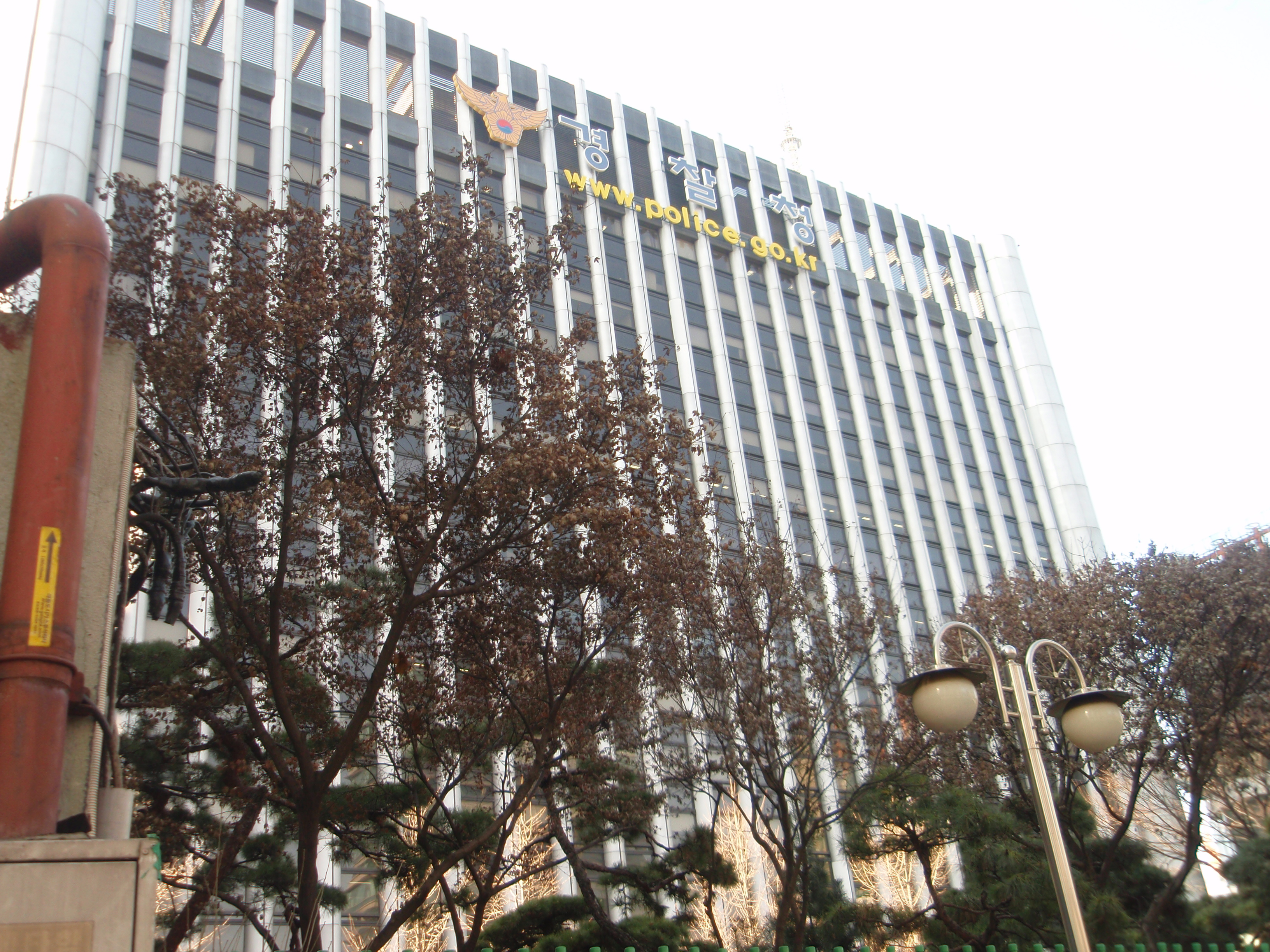 National Police Agency, Republic of Korea